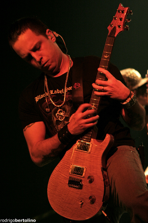 Banda Charlie Brown Jr. apresentando-se ao vivo no Galpão da Philips em Guarulhos, SP, no dia 19 de julho de 2008 (Foto por Rodrigo Bertolino).